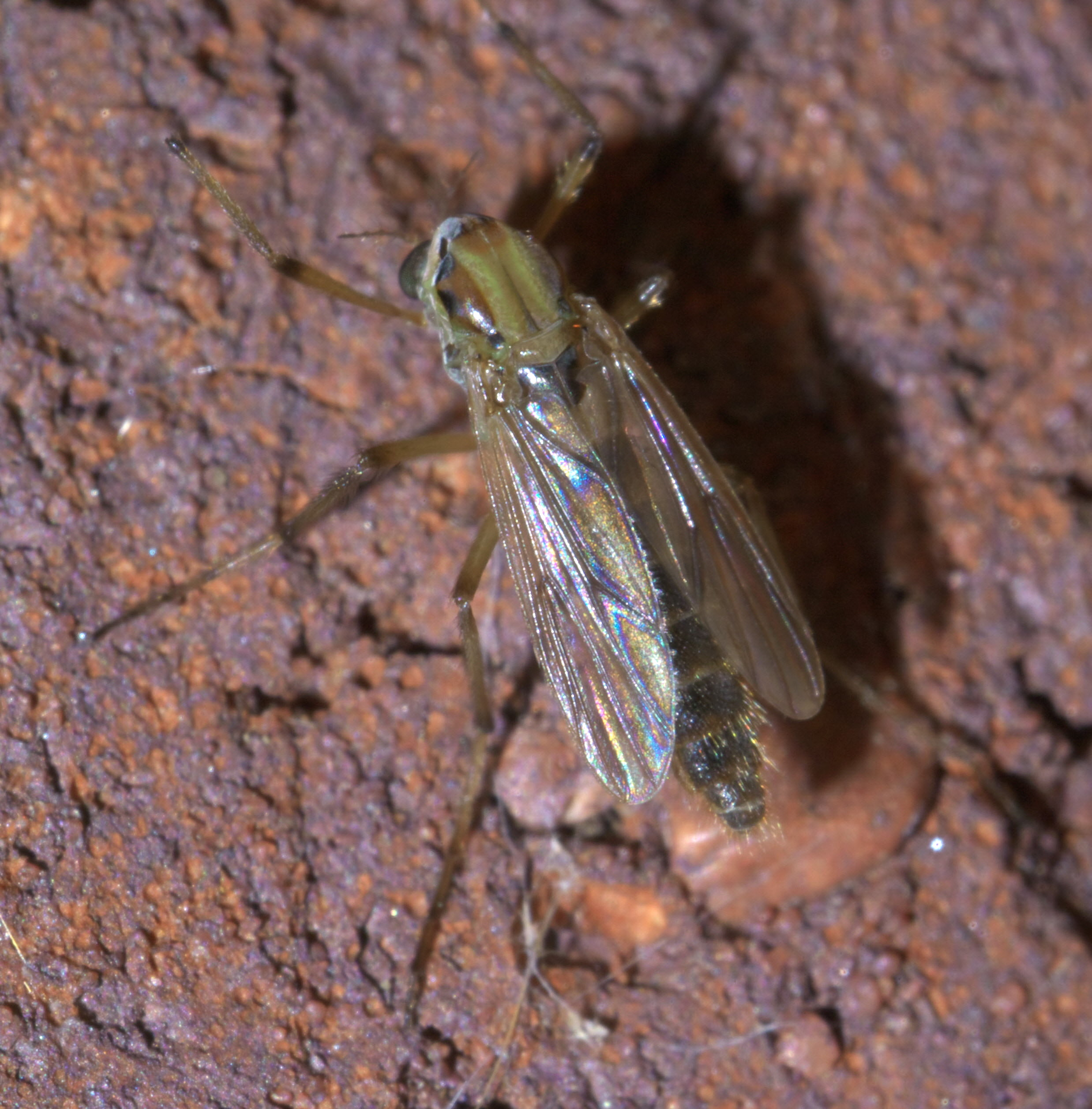 Goeldichironomus carus, Family: Midges, Size: 5.8 mm, ID Confidence: 98